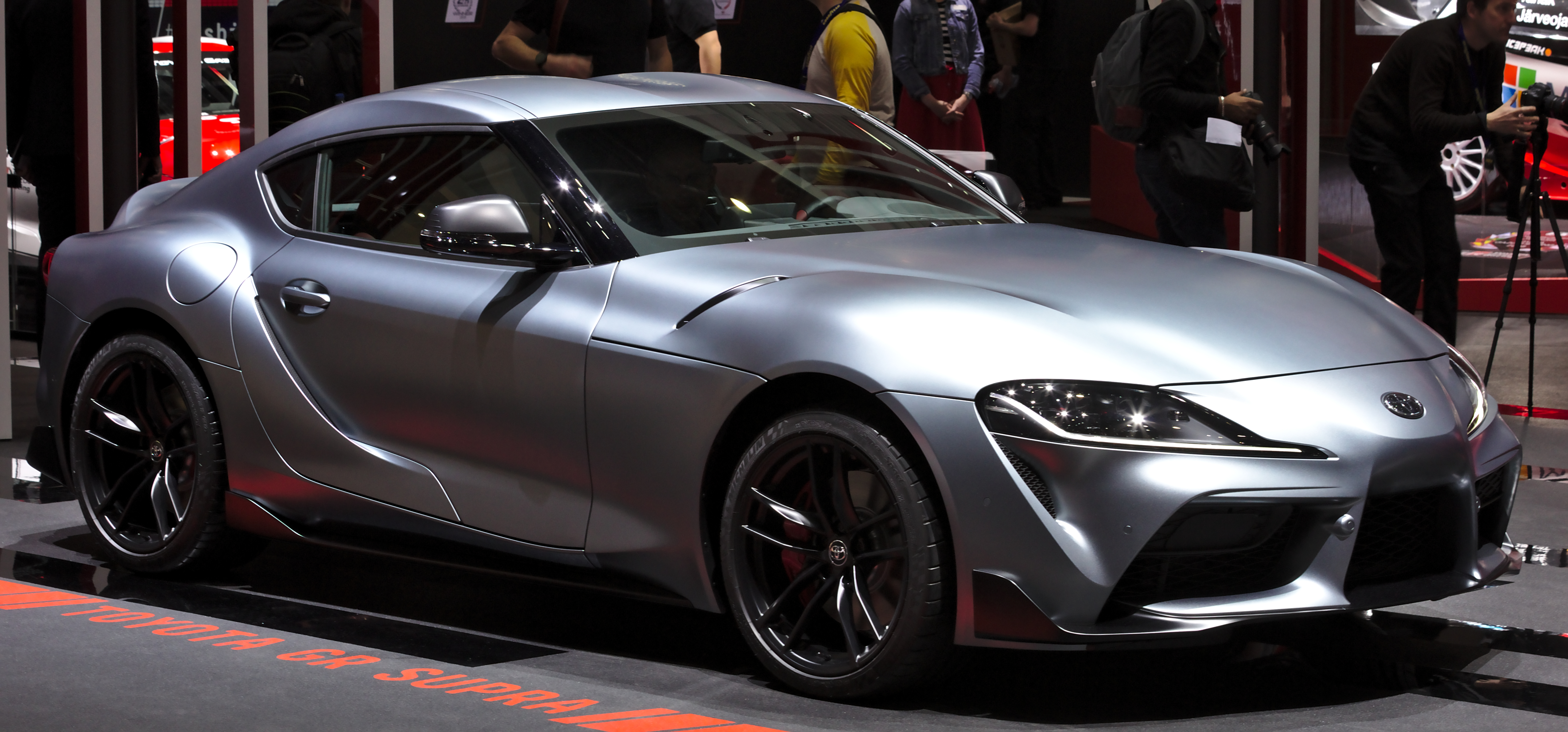 Toyota Supra GR at Geneva Motor Show 2019